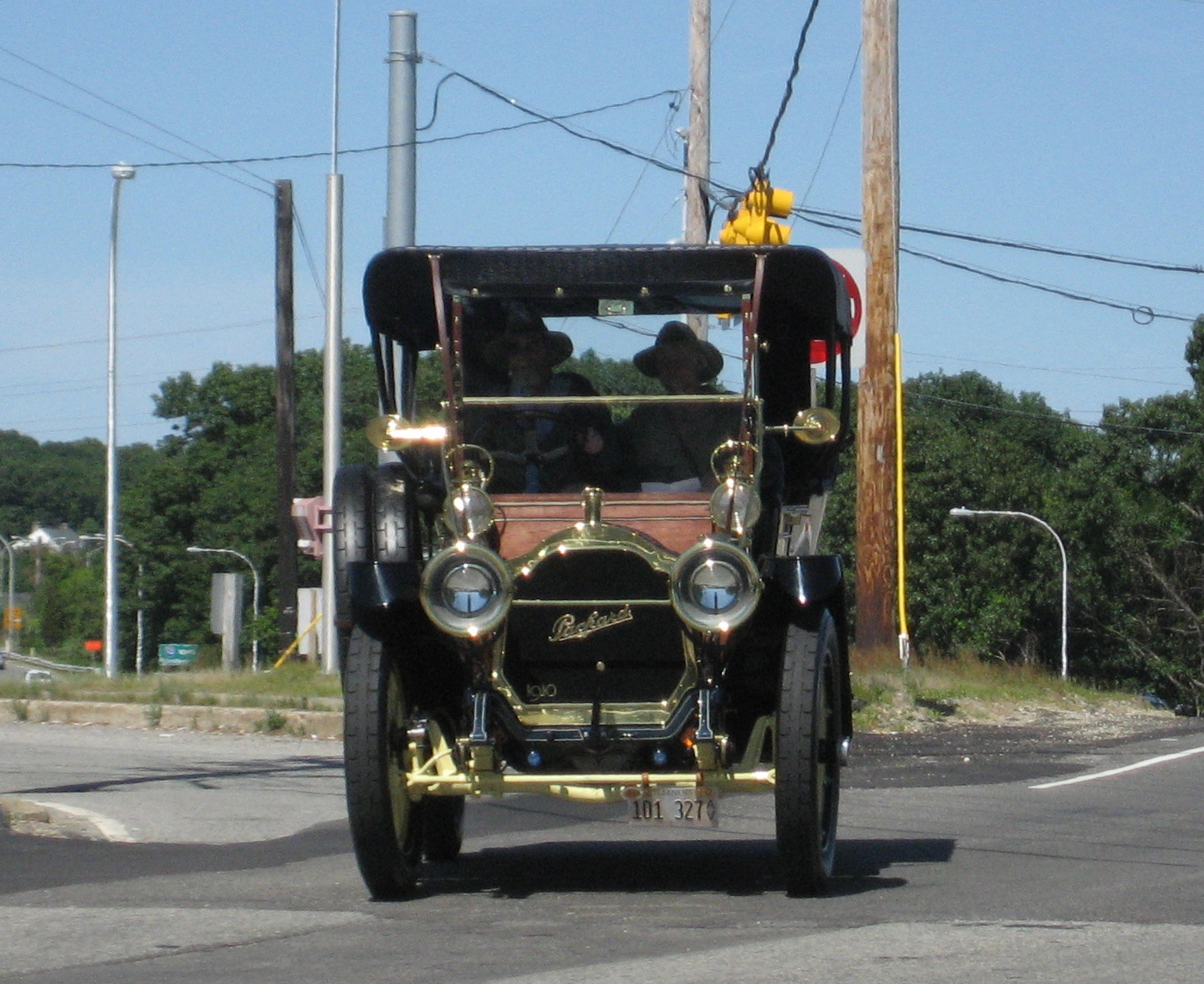 Old Packard automobile-- it says "1910" on the grill, which looks about right-- spotted driving in Providence, Rhode Island.